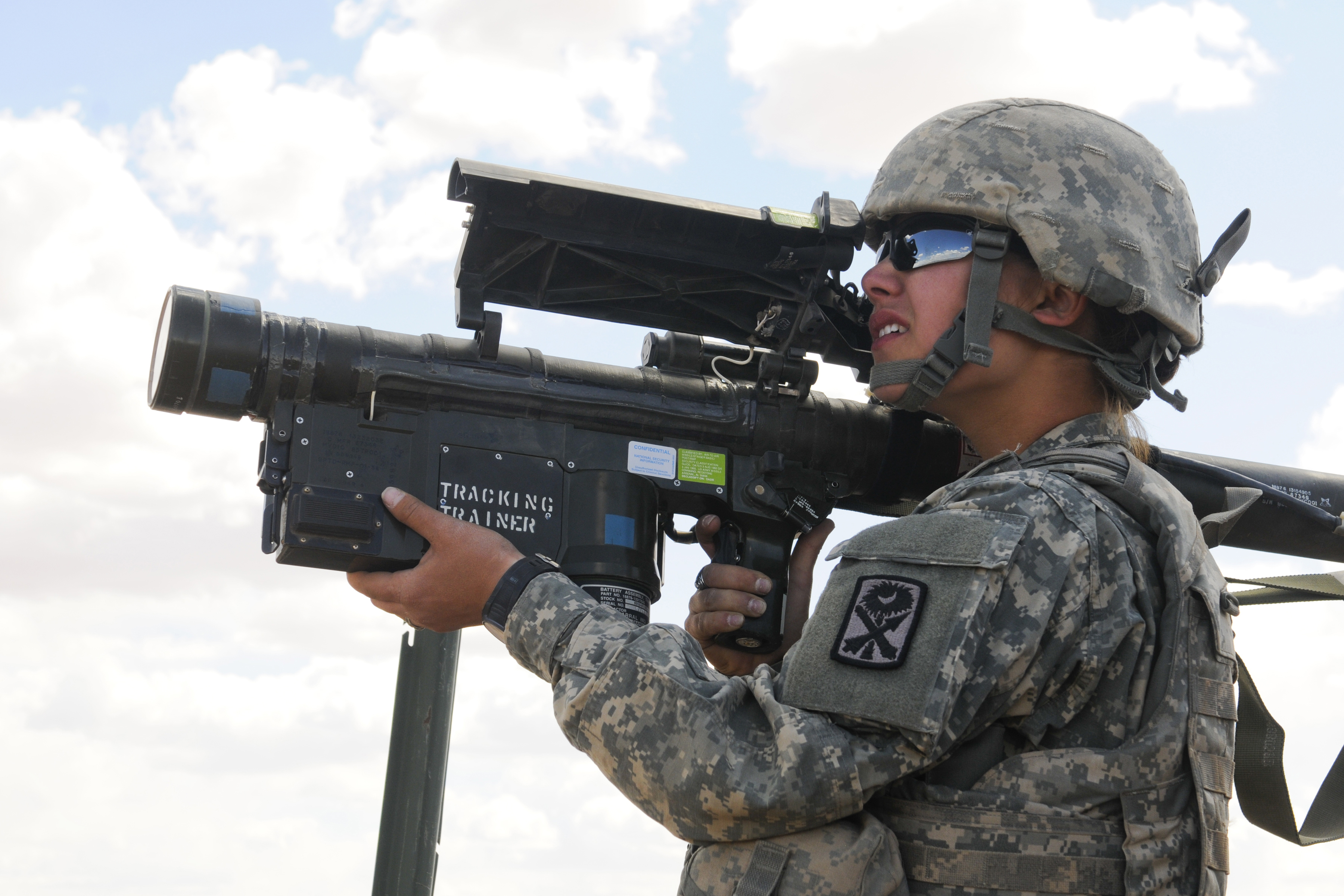 Spc. Faith Baker, 2nd Battalion, 263rd Air Defense Artillery, sights a drone with her shoulder-fired Stinger Missile during the training portion of a live-fire exercise, April 6, at Fort Bliss, Texas. Soldiers from the South Carolina National Guard’s 263rd Army Air and Missile Defense Command and the 2nd Battalion, 263rd Air Defense Artillery, both from Anderson, S.C., used these drones as targets during a live-fire exercise at Fort Bliss April 5-9 in preparation for deployment to the National Capital Region. Their mission is to protect the skies over the nation's capital from aerial threats. (U.S. Army National Guard photo by Sgt. Brad Mincey/Released)